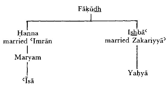 This image shows Mary's lineage, going back to her grandfather (according to Islam)